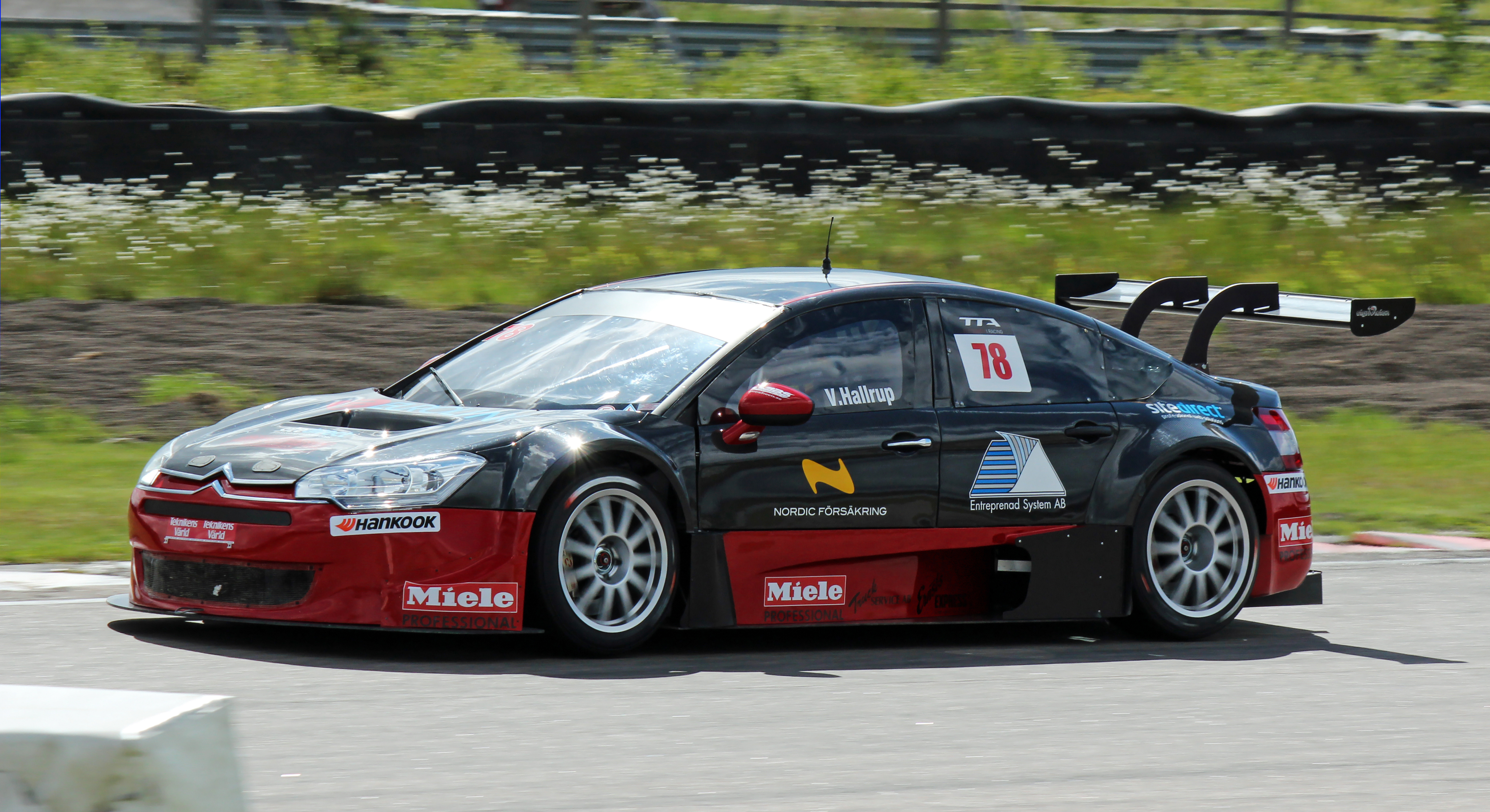 Viktor Hallrup in his Citroën C5 Solution-F for Miele Brovallen Design in TTA – Racing Elite League at Anderstorp Raceway in 2012.